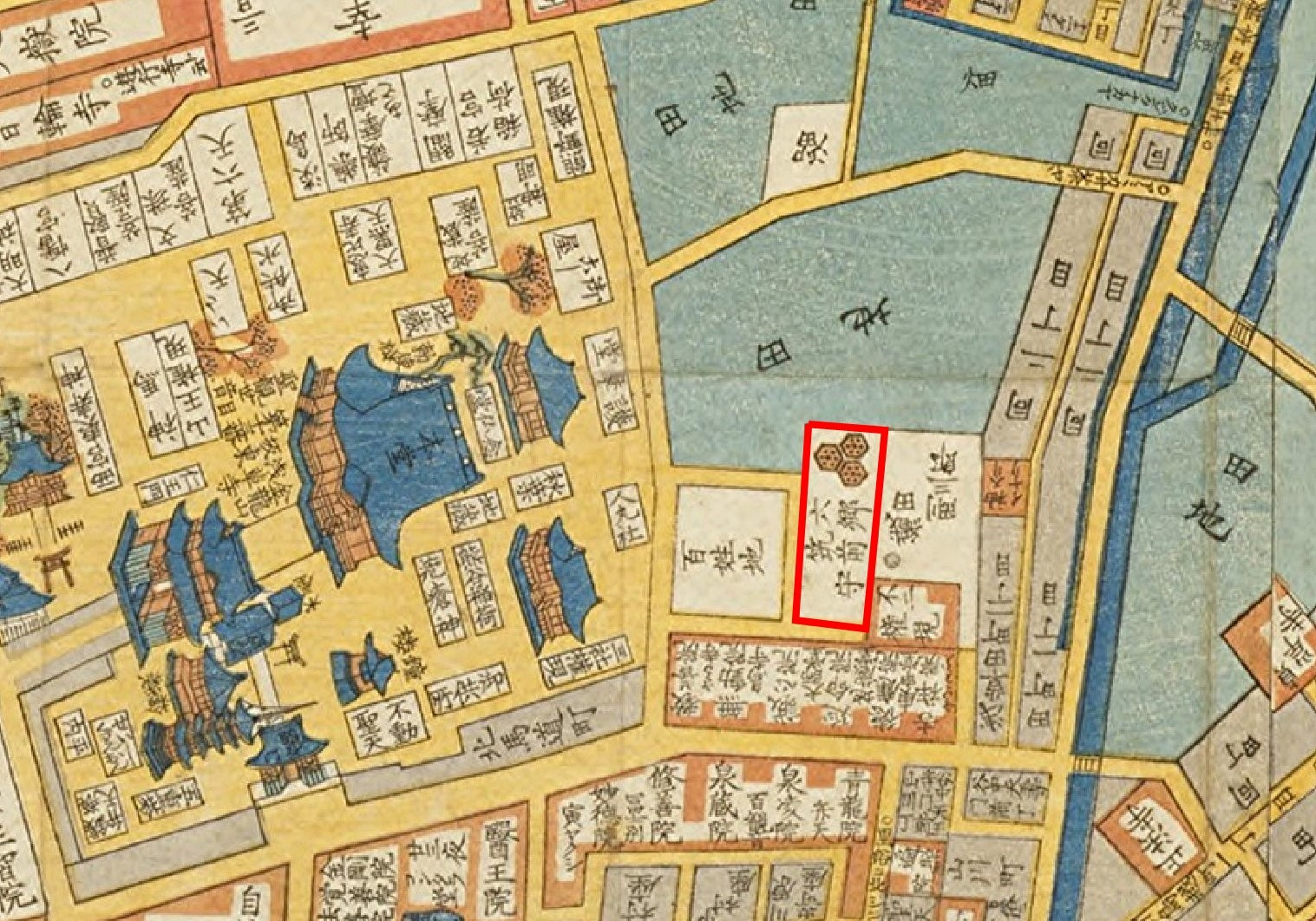 Residence of Rokugô clan at Edo